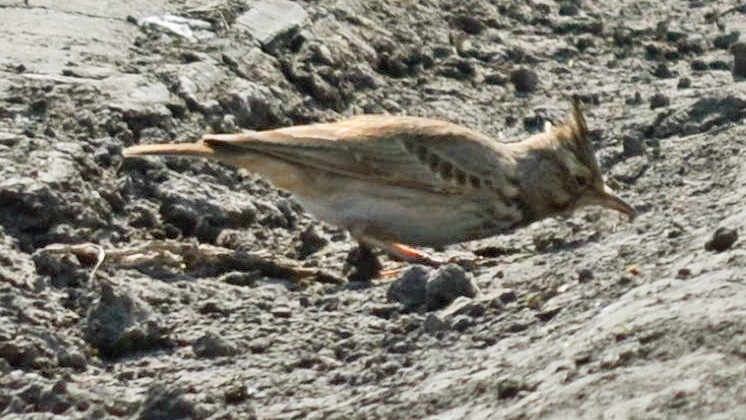 Crested Lark (Galerida cristata) searching for food.